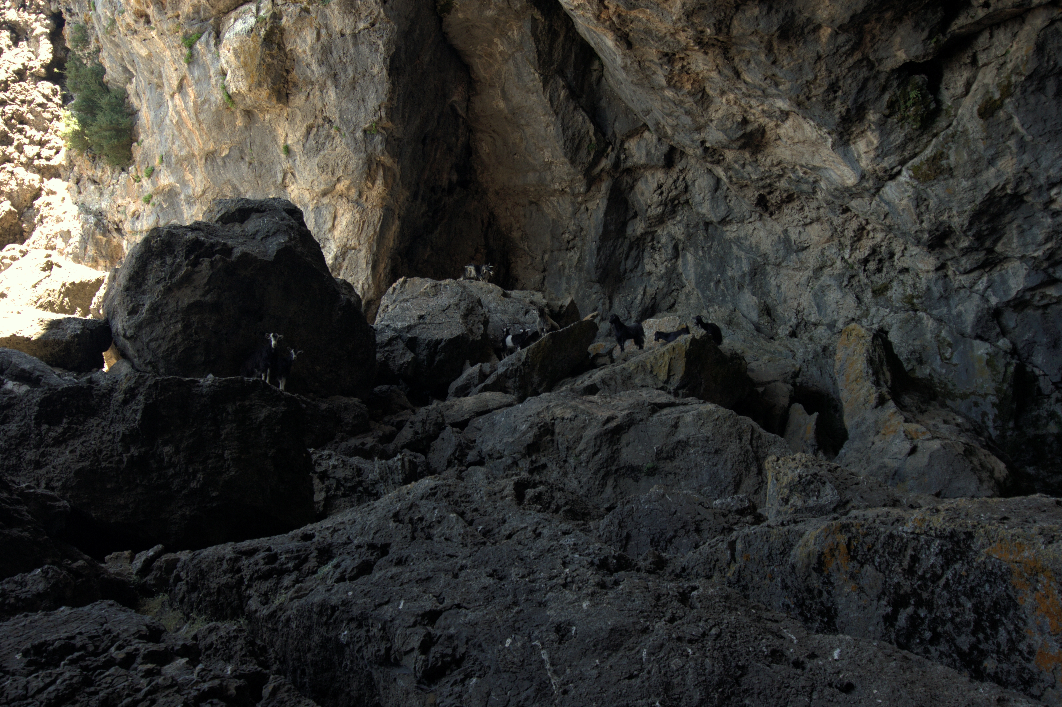 Cave of Kamares.